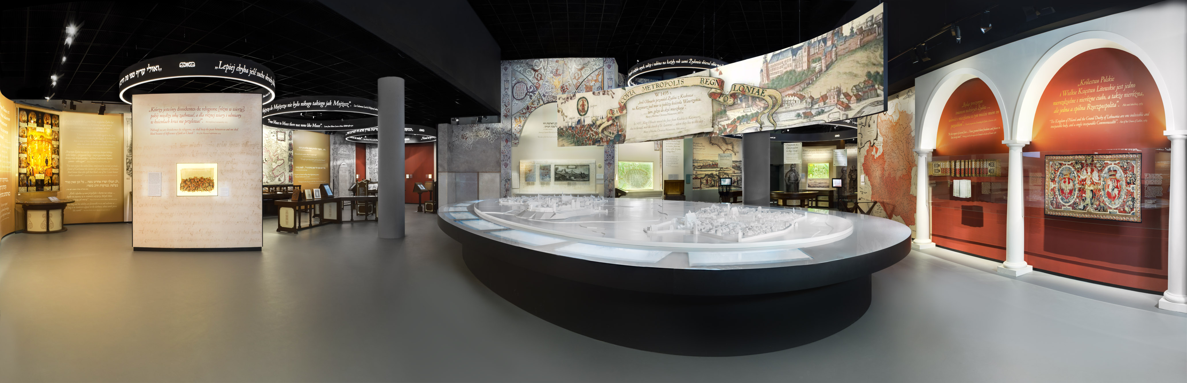 Main exhibition of the Museum of the History of Polish Jews in Warsaw. "Paradisus Iudaeorum" gallery